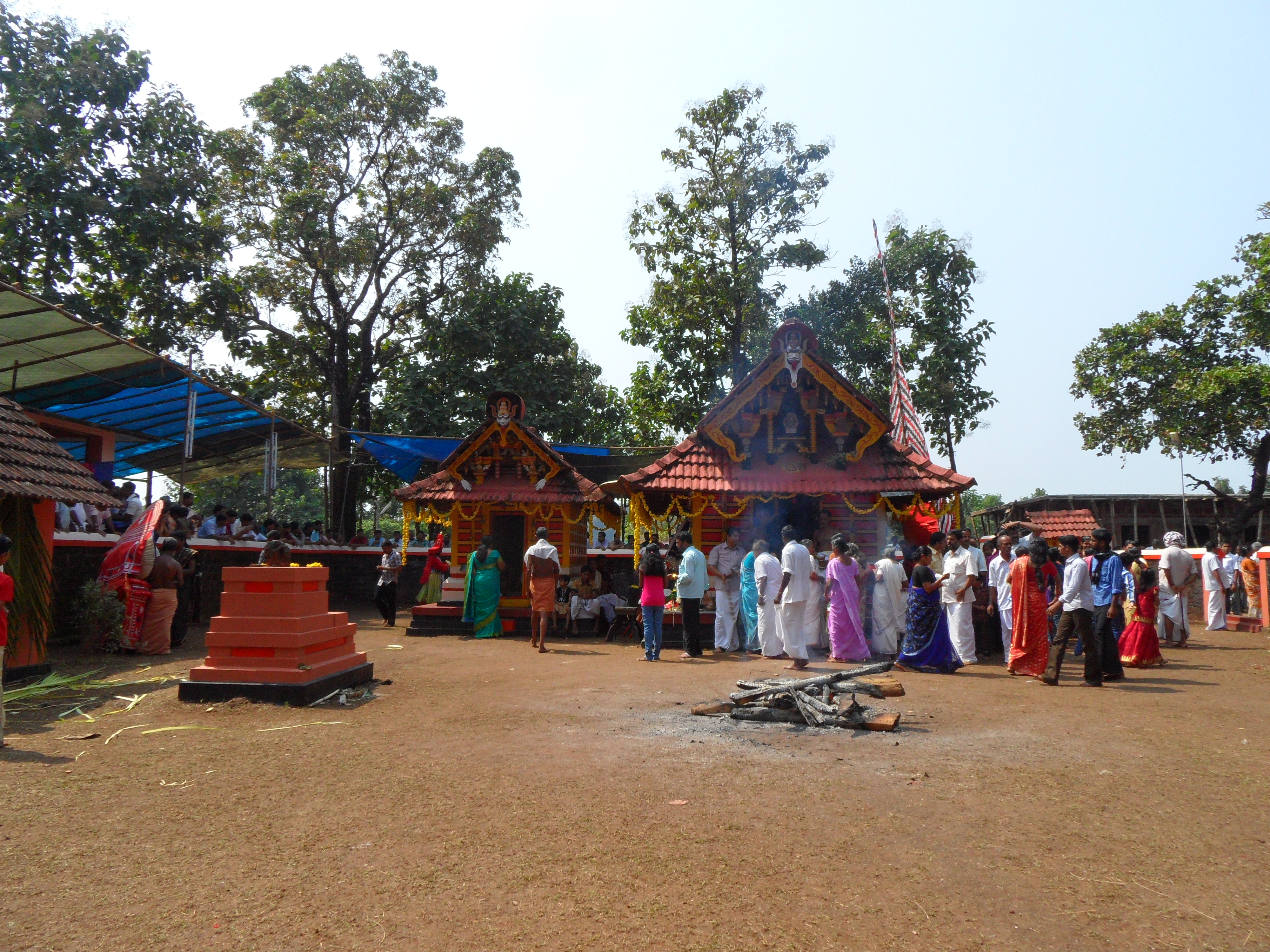 Nambram muchilotkavu